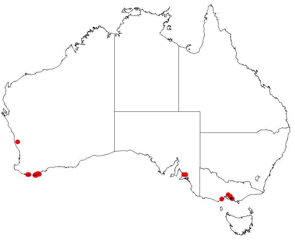 Hakea elliptica Occurrence data downloaded from Australasian Virtual Herbarium on 22 November 2018 using